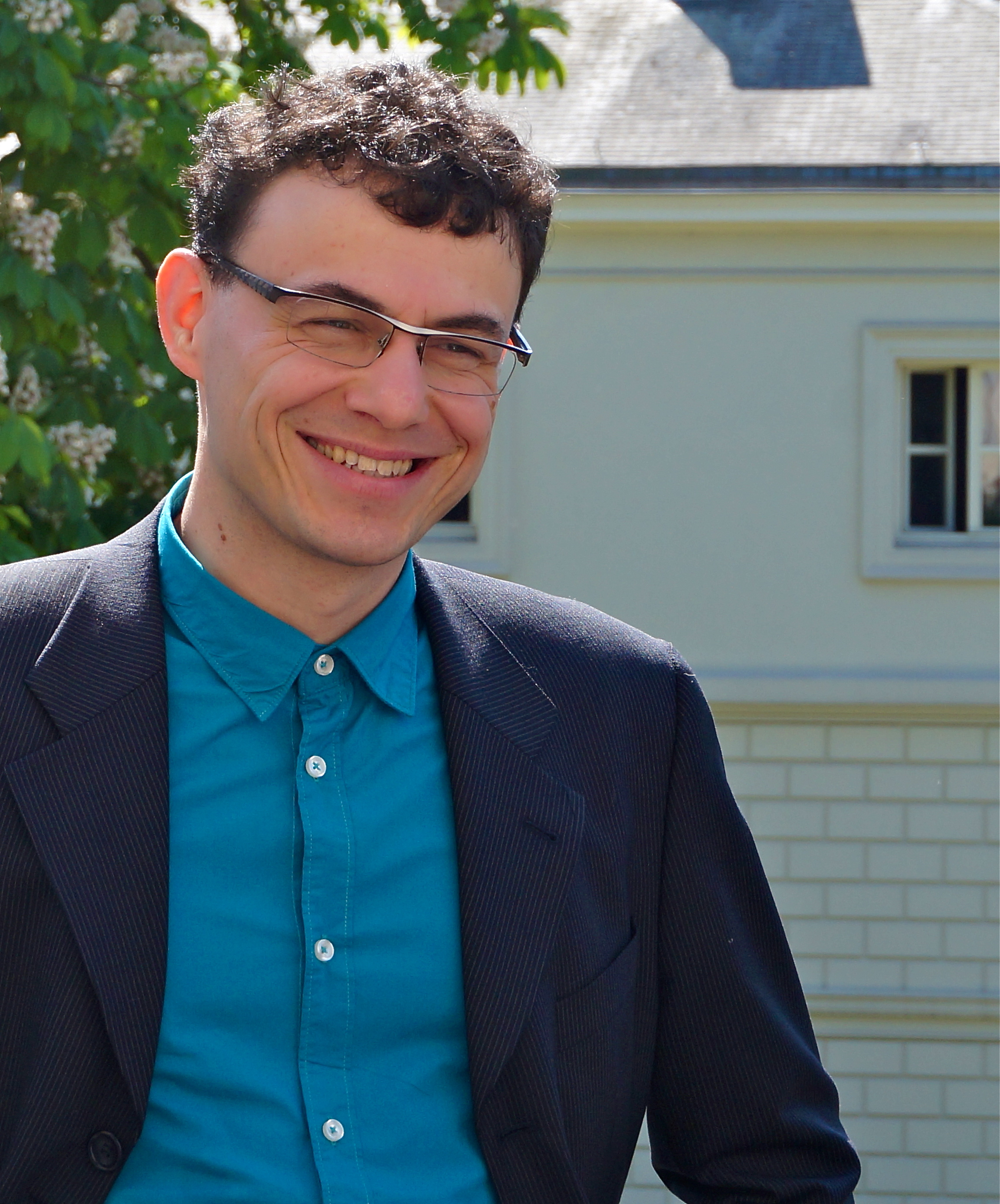 BenVan Calster